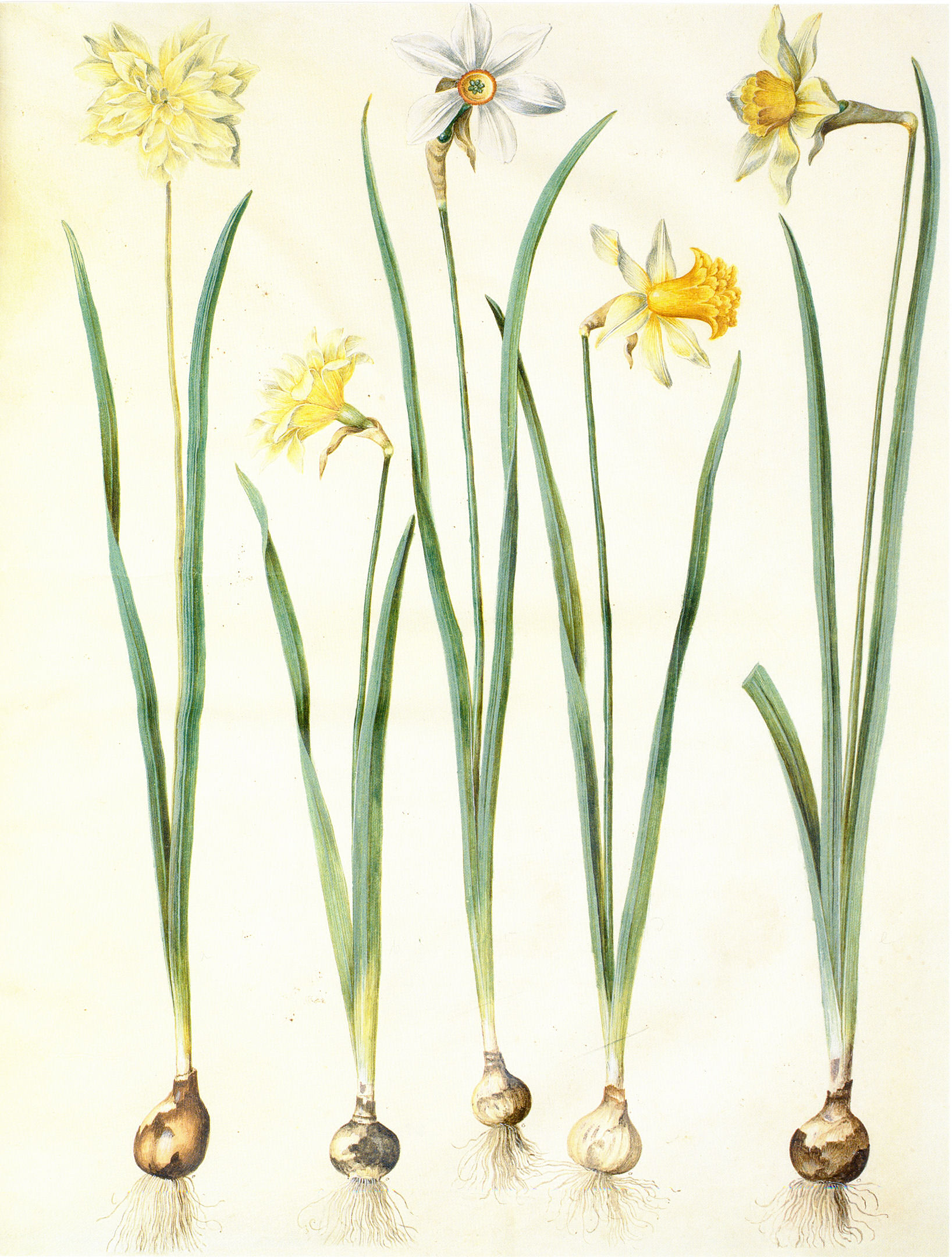 Narcissus pseudonarcissus and Narcissus poeticus, gouache on vellum, in: Gottorfer Codex